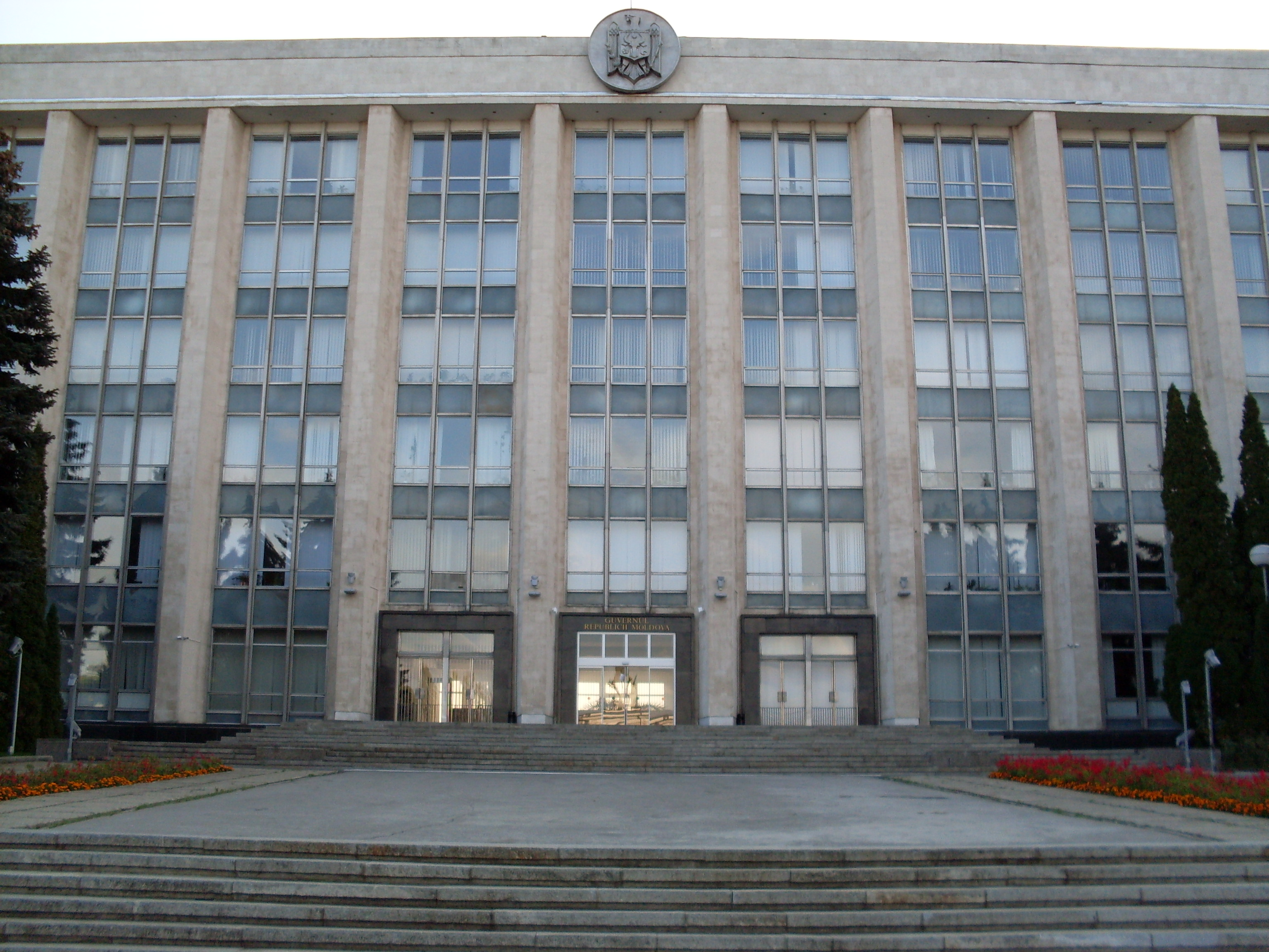 The Gouvernment building in Chisinau